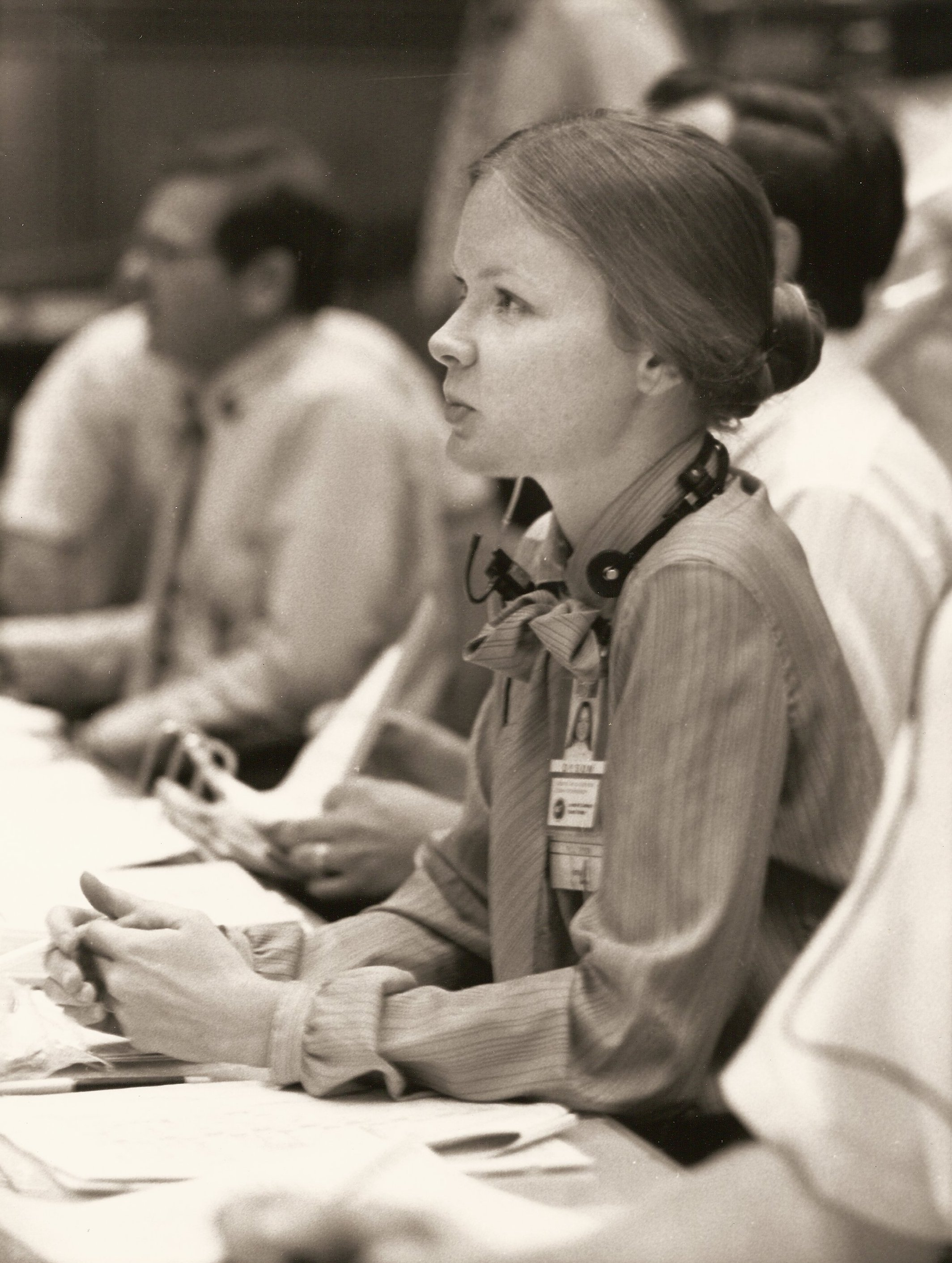 Flight Activities Officer Marianne J. Dyson, a member of the STS-4 Entry Team, on console in Mission Control at Johnson Space Center. The Mission Control Room for STS-4 was located on the second floor of Building 30 at Johnson Space Center in Houston, Texas. The FAO console was next to the Capcom.